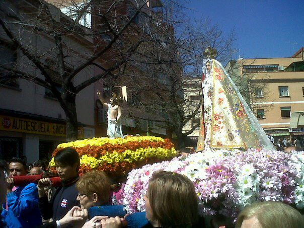 Domingo de Resurrección Santa Coloma